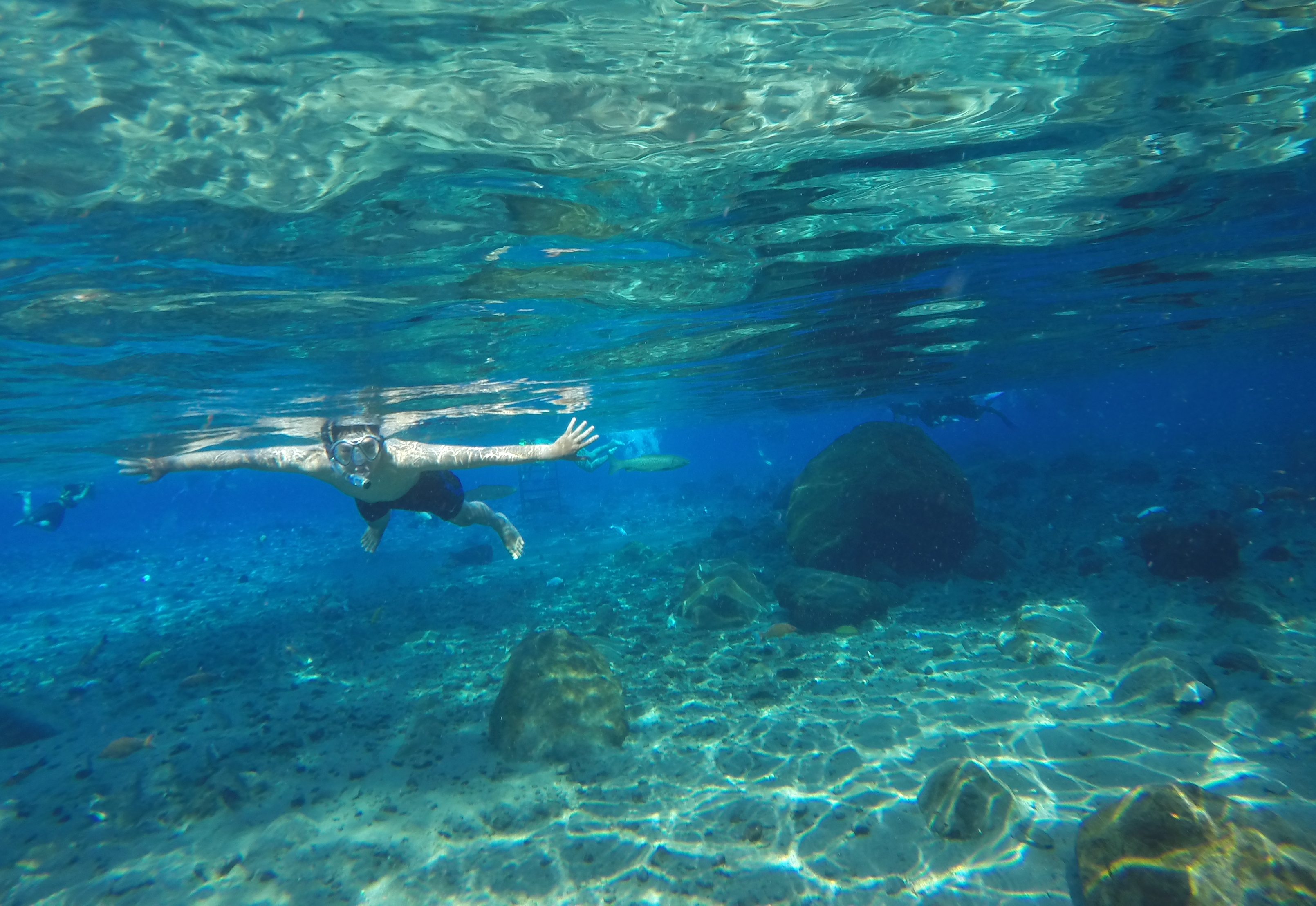 Umbul Ponggok is a water spring pool located in Klaten, Central Java, Indonesia.